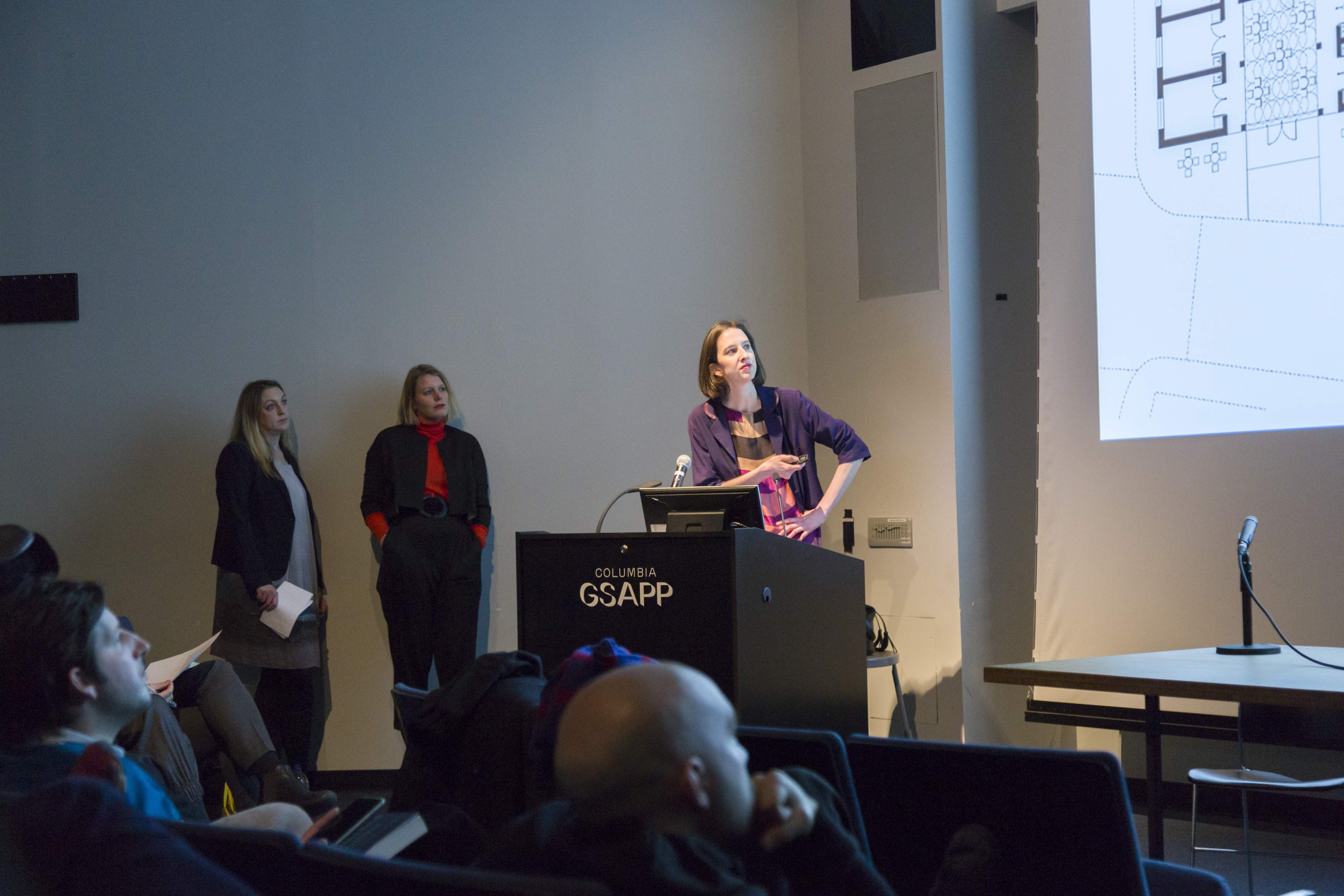 Tatiana von Preussen, Catherine Pease, and Jessica Reynolds of vPPR at Columbia GSAPP